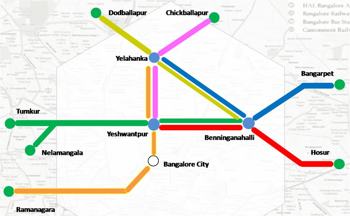 Created for Commuter Rail Project - Praja.in